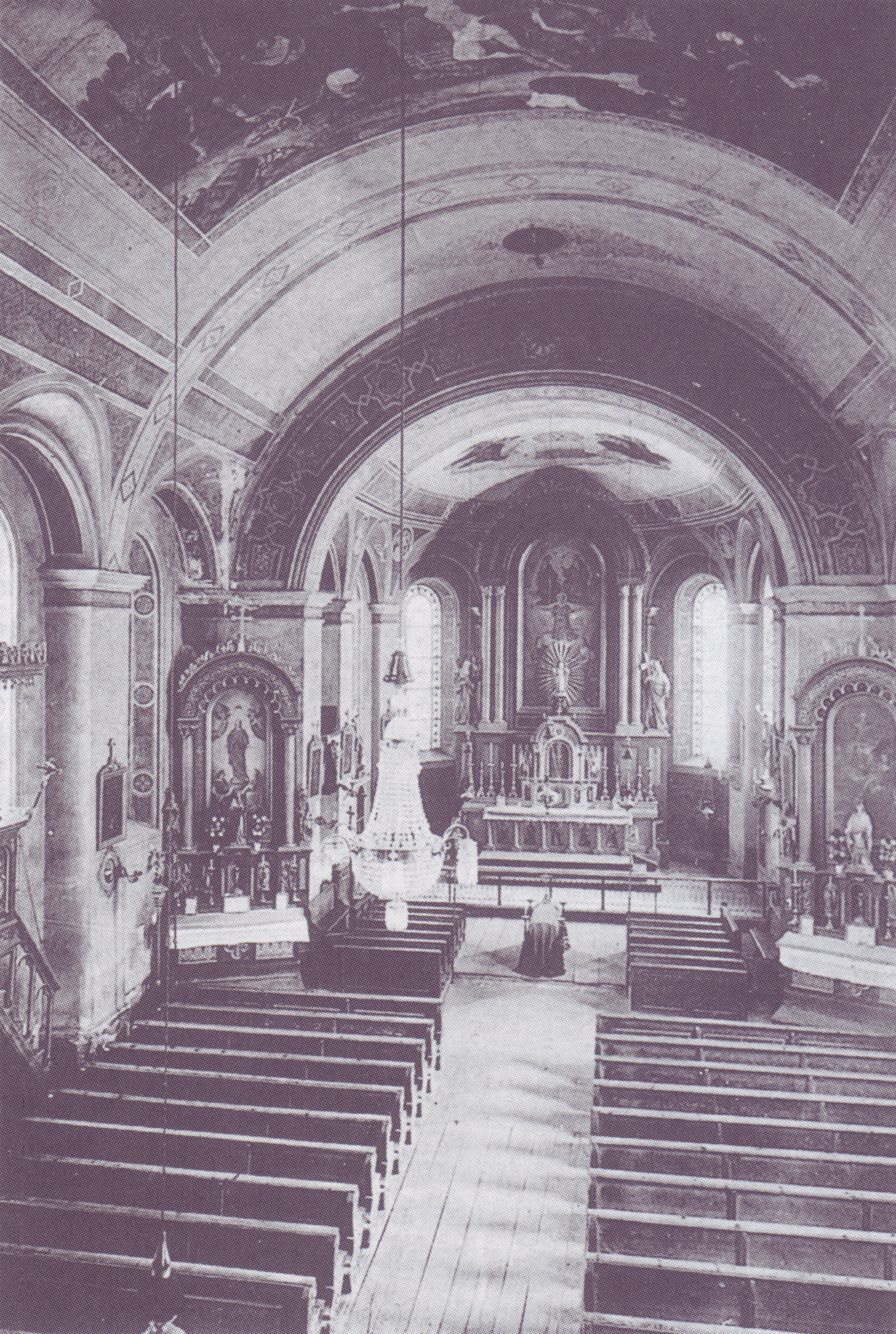 Interior view of the St. Lawrence Church, Wörgl (Tyrol, Austria) before 1912.